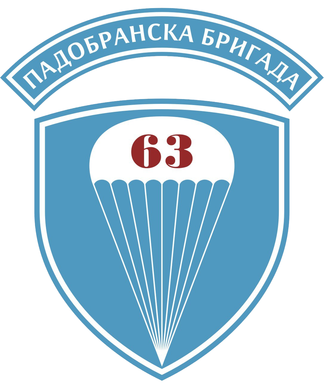 Patch of 63rd.Parachute Brigade